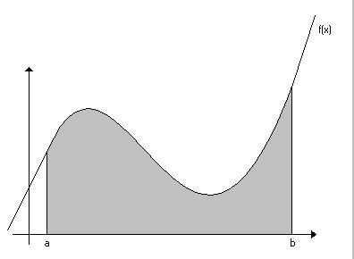 Description: Ilustration of Riemann integral Author: Petr Glivický